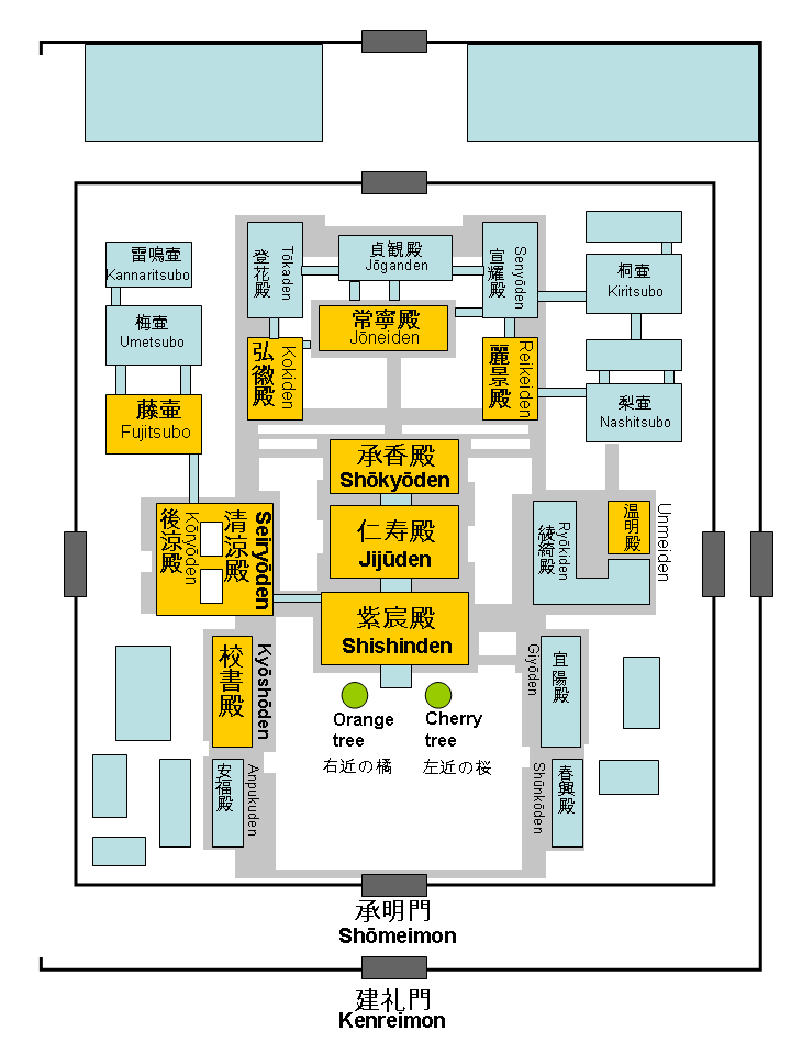 Schematic plan of the Inner Palace (Dairi) of the Heian Palace based on maps and plans in published work Category:Maps of the history of Japan